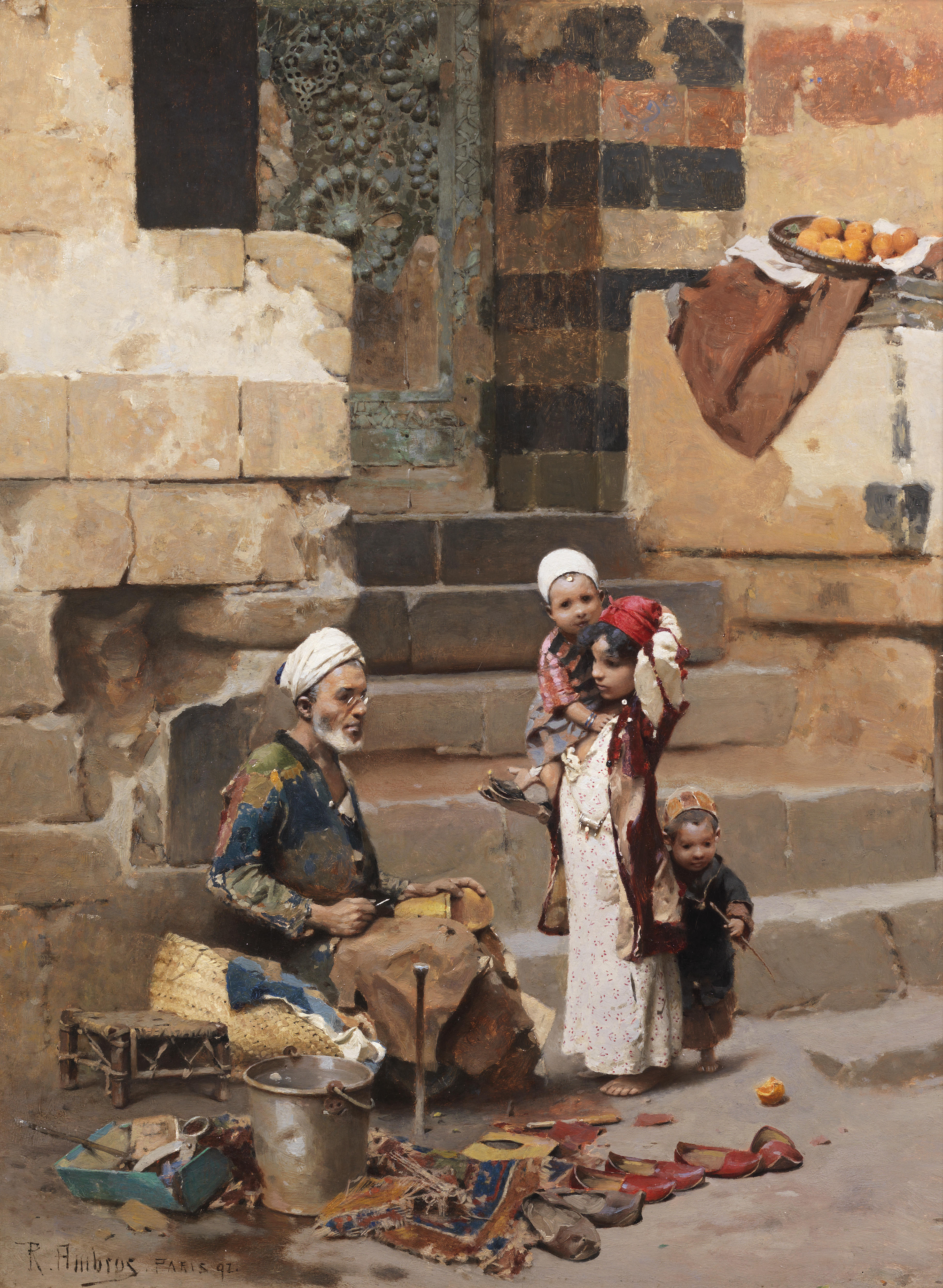 The old shoe maker, Cairo.